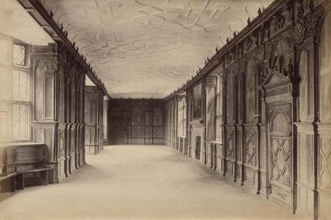 The long gallery at Haddon Hall. Unknown photographer, c.1890. A similar illustration, of the same subject, is found at File:Illustration facing page 288 of The Elizabethan People.png